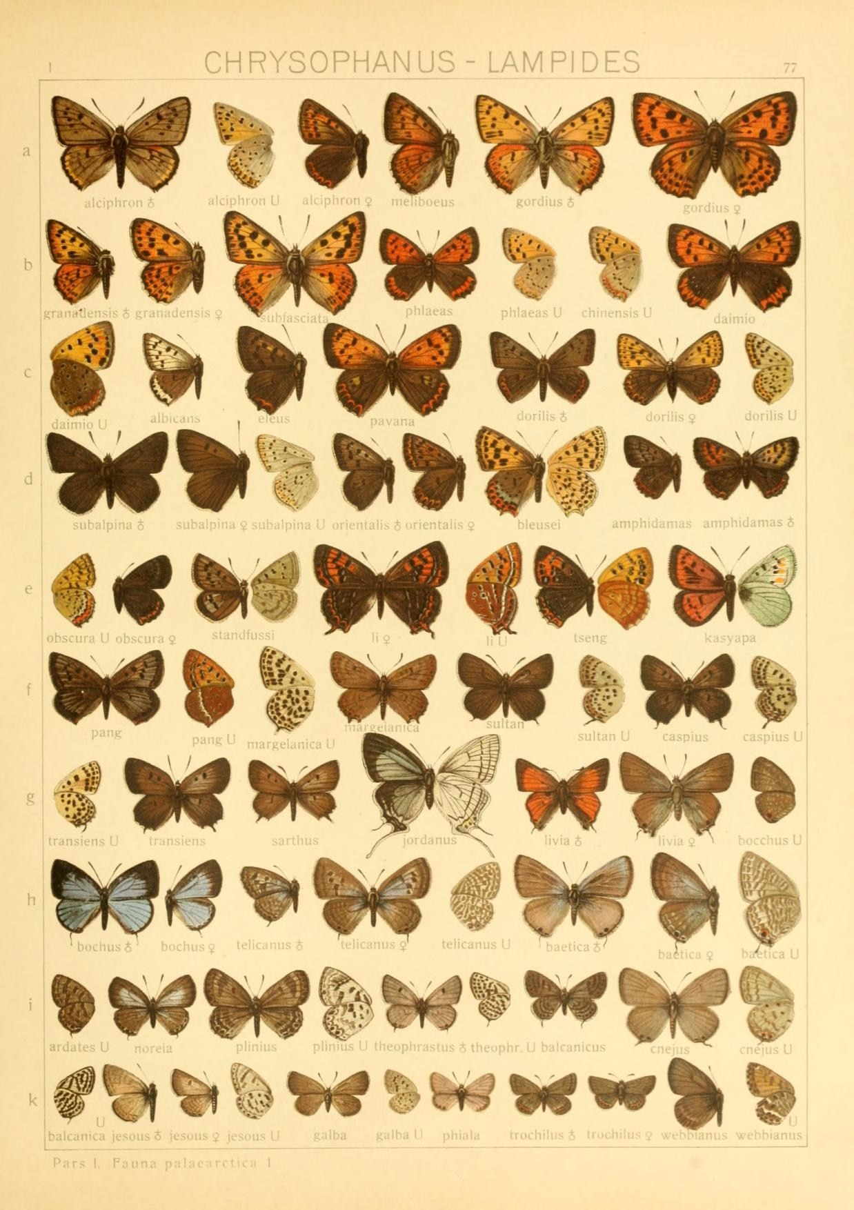 CHRYSOPHANUS-LAMPIDES ¥»»r W \ / ^ phiaeas U chinensis ' . ^ VIV iP Wm Wm w Wm arJciu-s l) :i, pliniiis 1 1 i : ^^ ^^ ^^ ^•((^ ^ r1# ^V ^'^ m